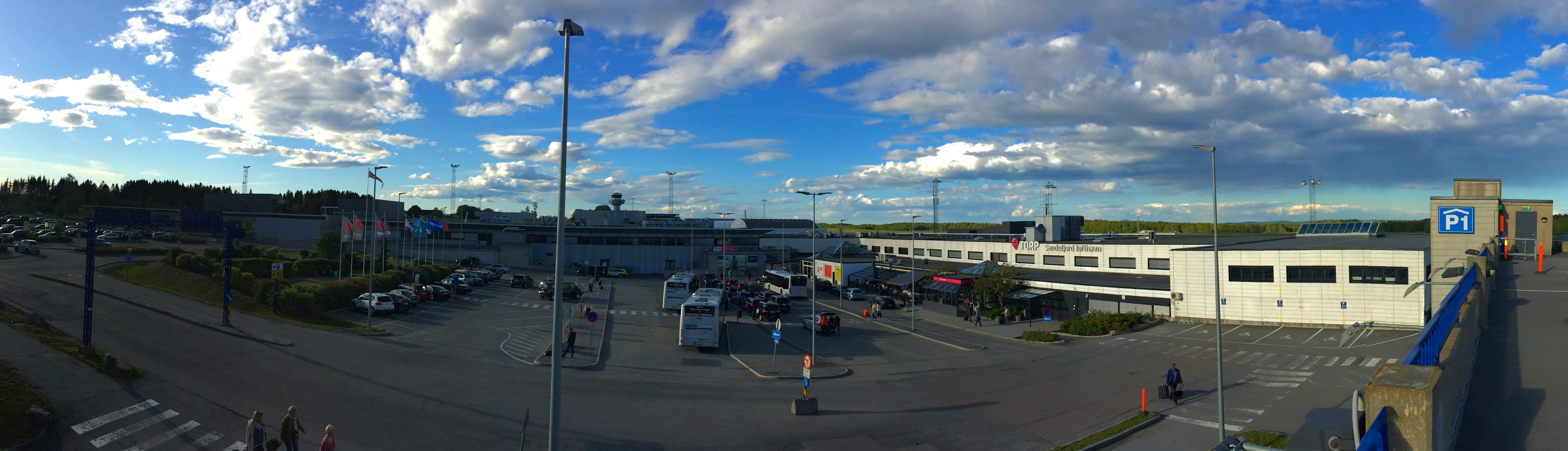 Fold-out-panorama of terminal building at Sandefjord Airport, Torp, Norway May 27th, 2015 (iPhone panoramic photo, distortion may occur in details and continuity.)